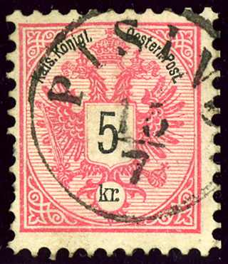 5 kr stamp issue 1883 of Austrian monarchy cancelled at Pisino (Croatia)